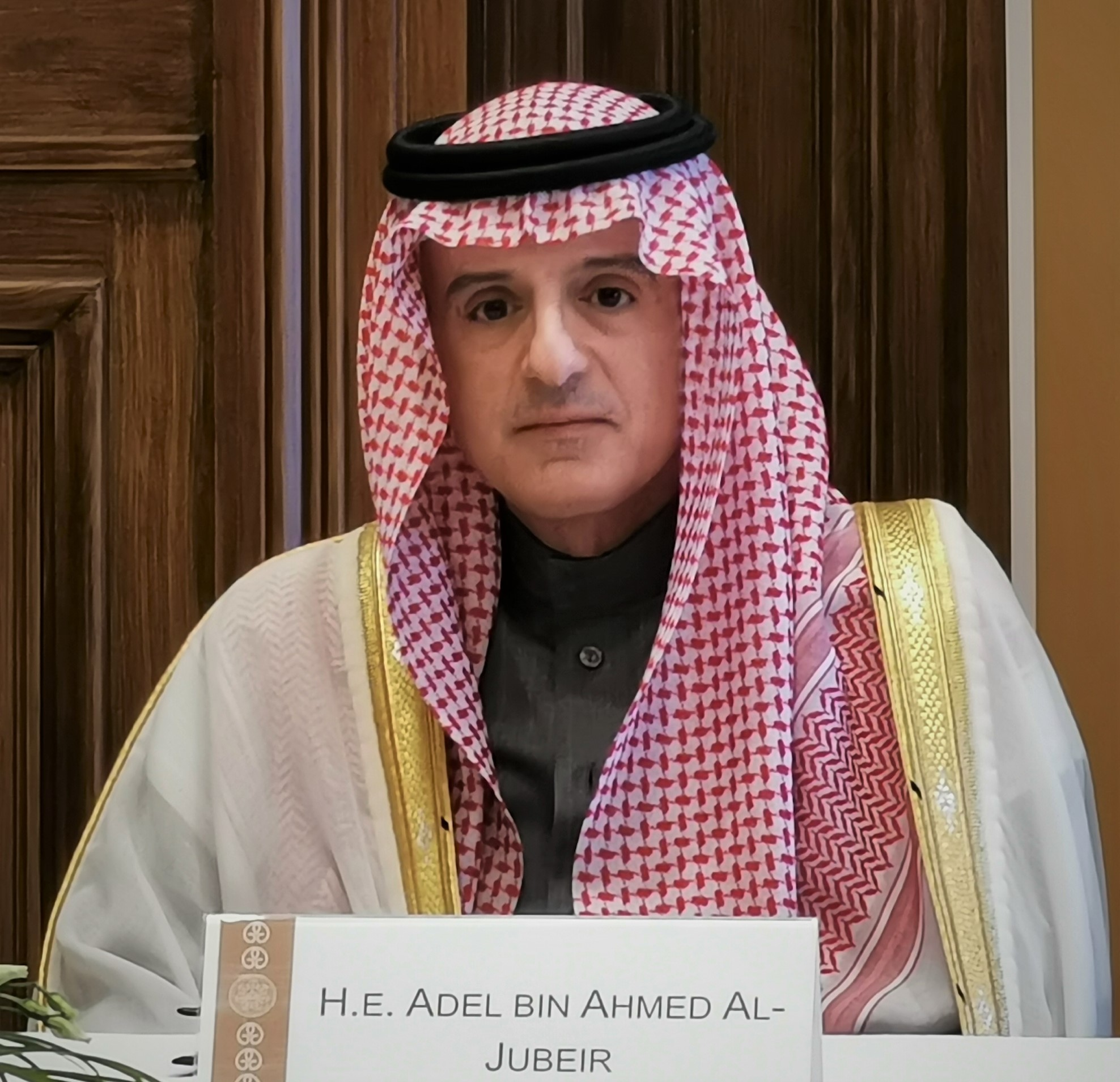 Adel al-Jubeir hold a lecture - Saudi Foreign Policy and Reforms of Visions 2030 at Közszolgálati Egyetem, Central Europe. Taken on Friday, the 24th of January, 2020.